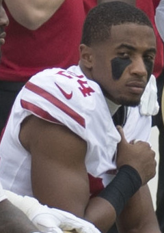 Some members of the San Francisco 49ers kneel during the National Anthem before a game against the Washington Redskins at FedEx Field on October 15, 2017 in Landover, Maryland.